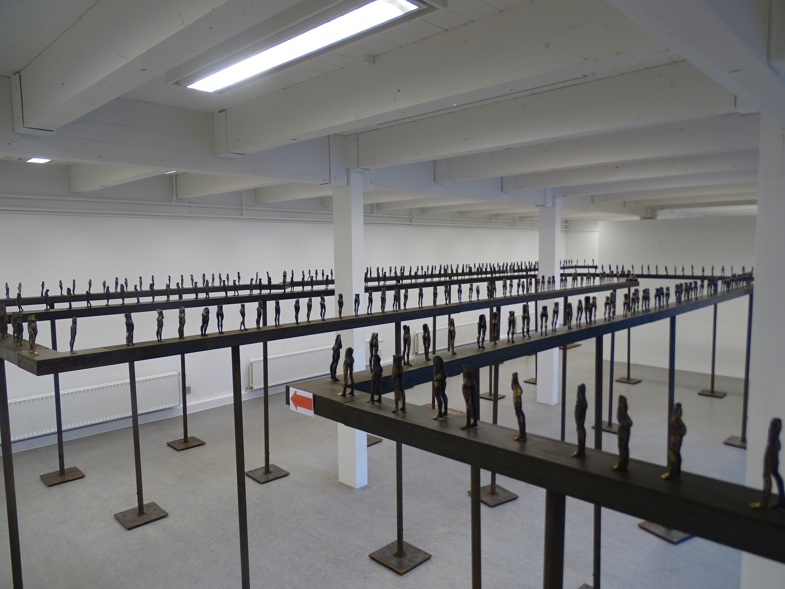 The sculpture "550+1" by the Danish artist Jens Galschiot. On the picture it is exhibited in Varde in Denmark.